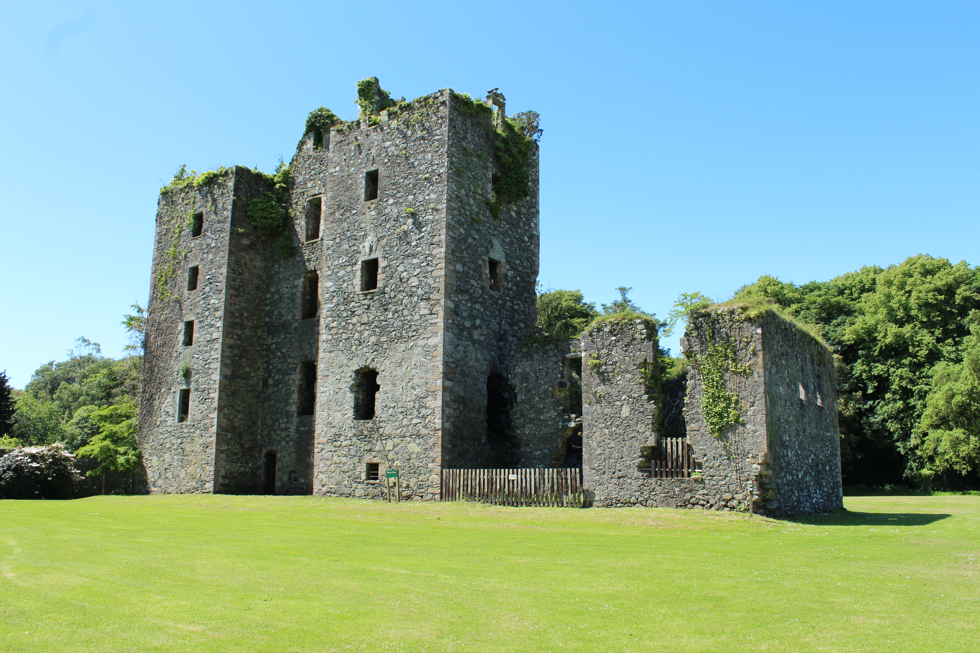 Castle Kennedy